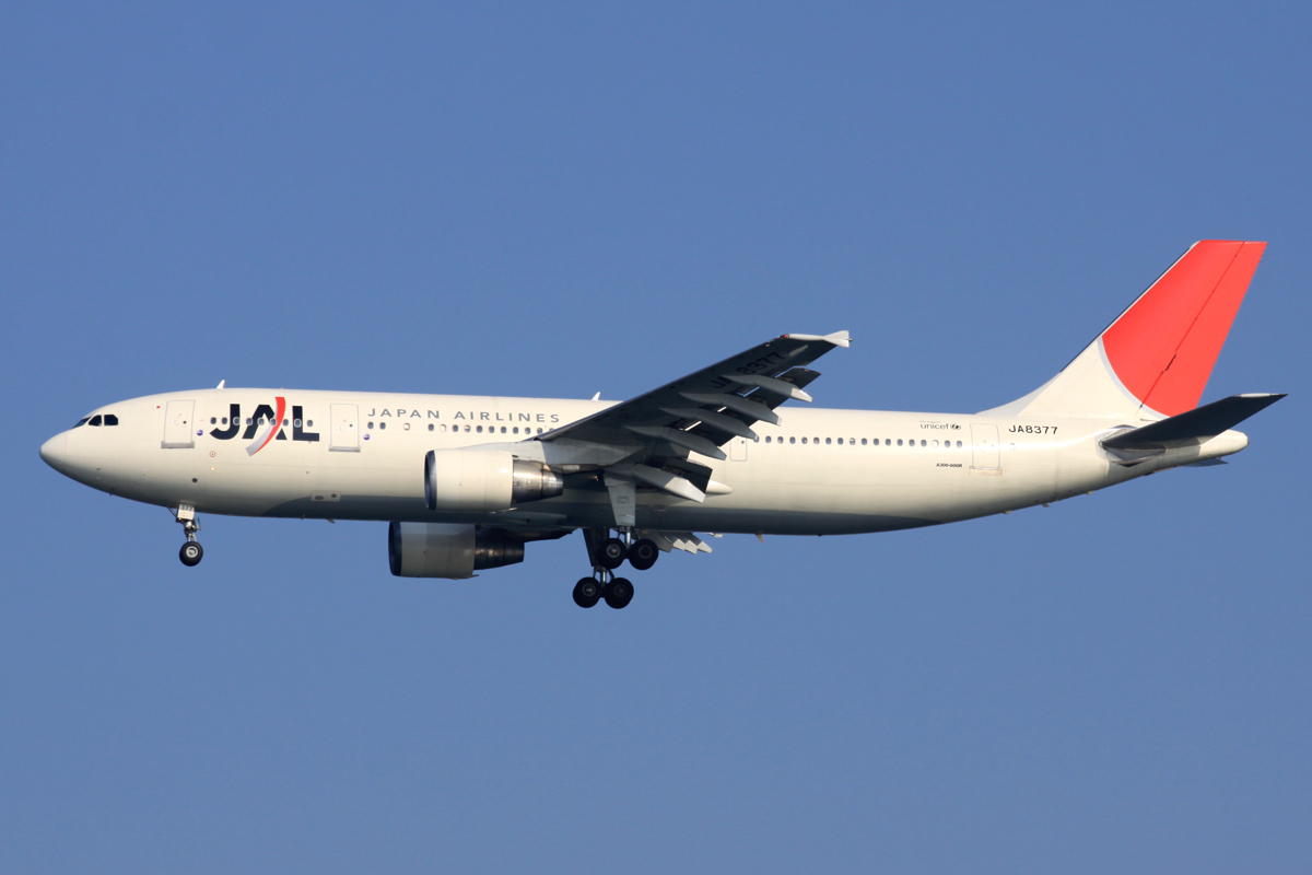 Final approach to Runway 34L, Tokyo International Airport, Airbus A300B4-622R, c/n:621